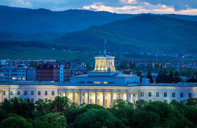 Government House Of The KBR